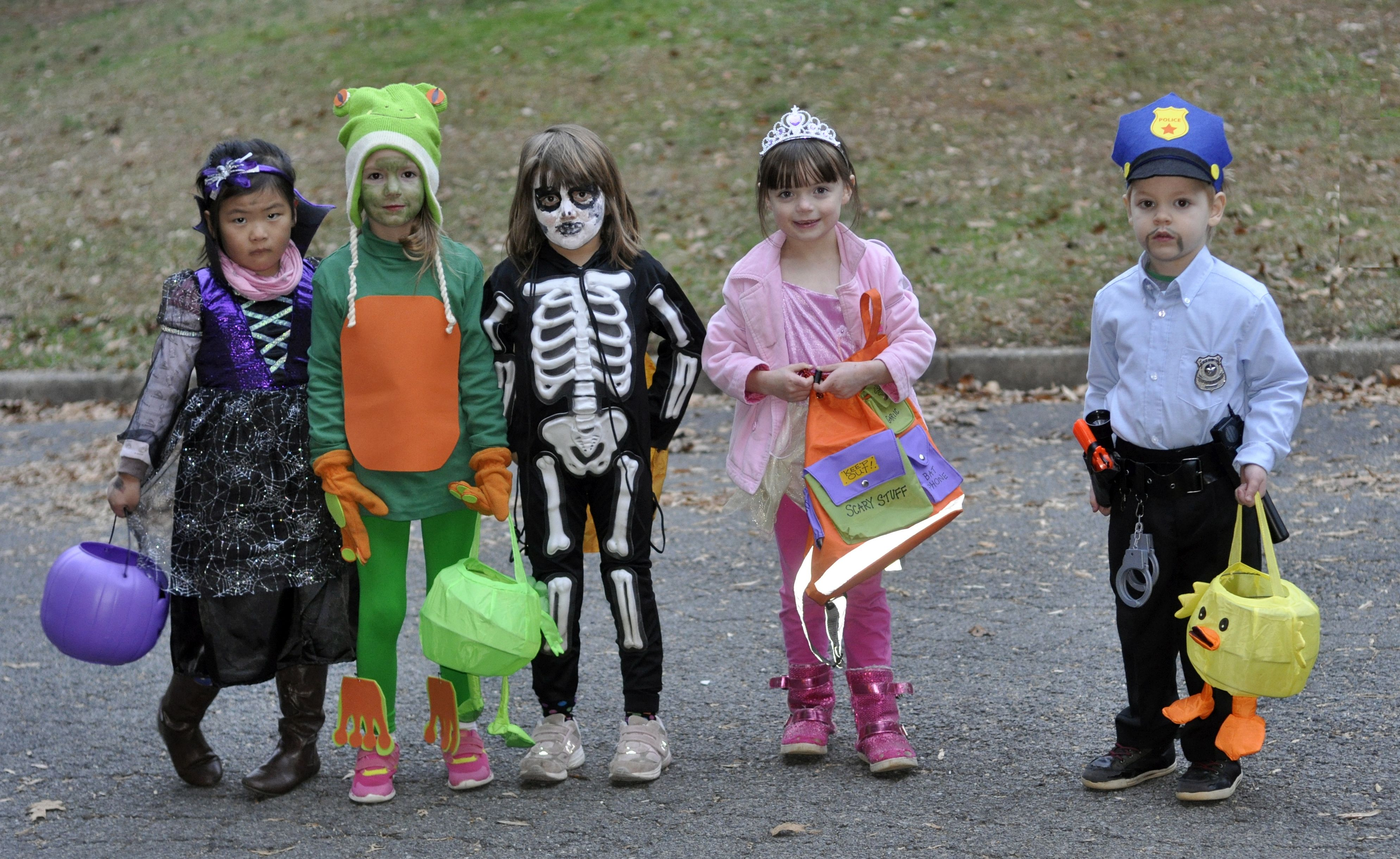 Halloween costumes in Virginia